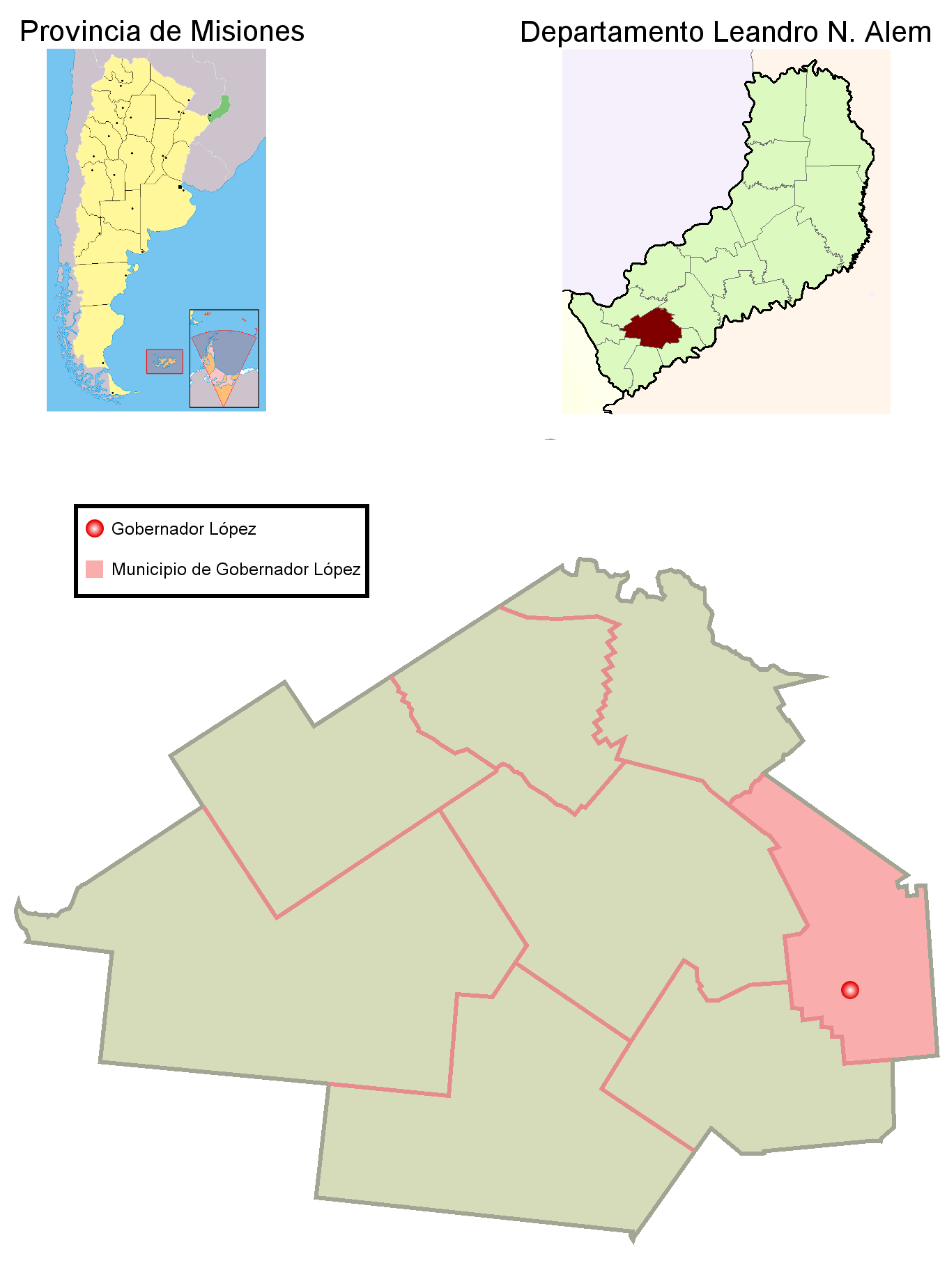 Map showing municipio of Gobernador Lopez in Leandro N. Alem department, Misiones Province, Argentina. Red point is Gobernador López town.